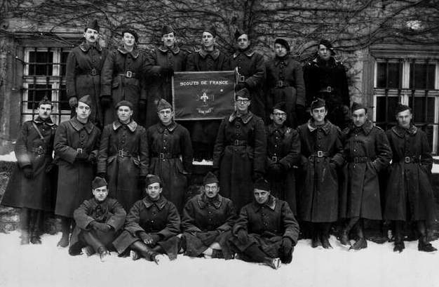 The French Scouts held at Colditz Castle.